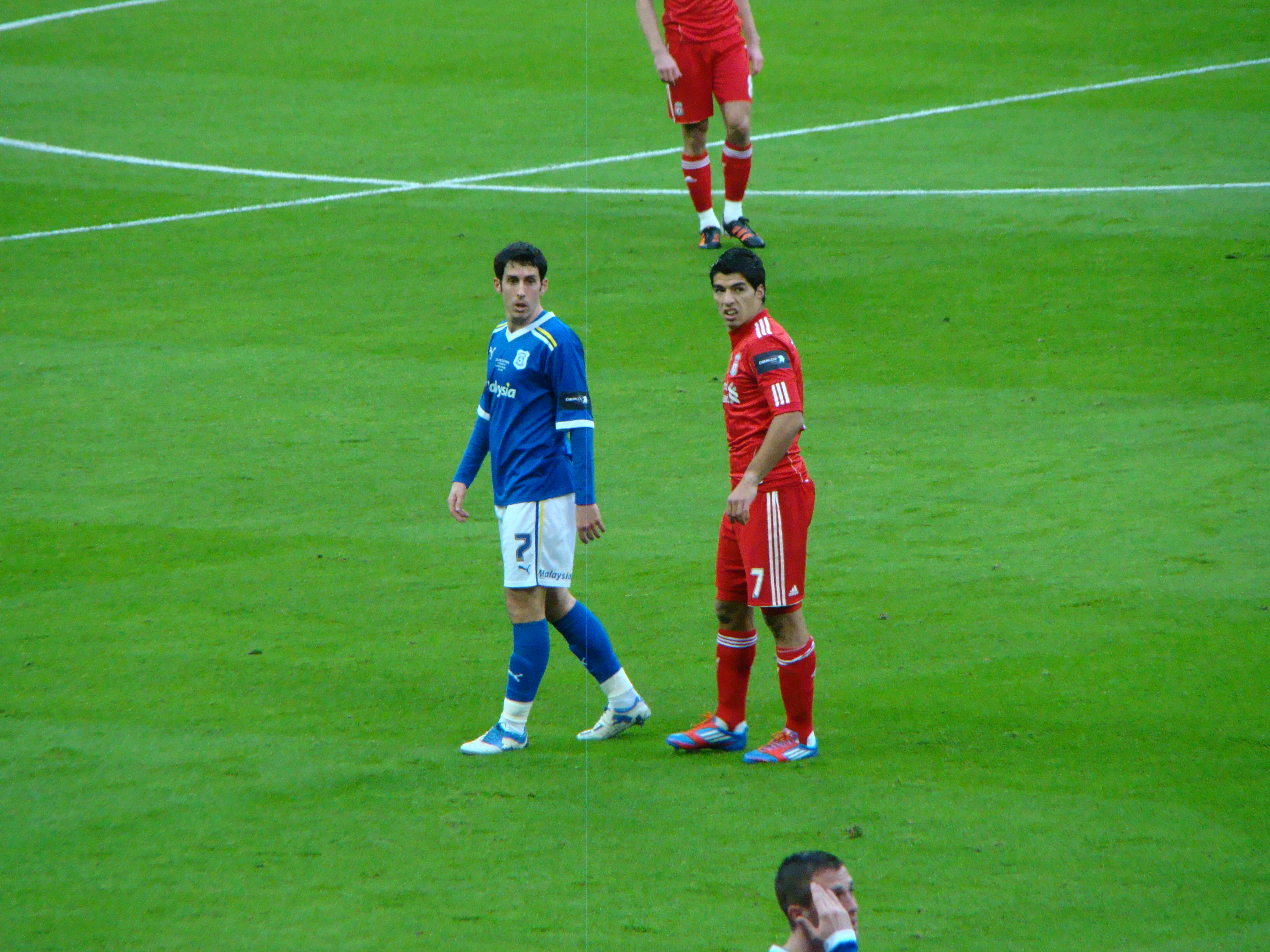 26/02/12 Cardiff V Liverpool, Carling Cup Final, Wembley, London